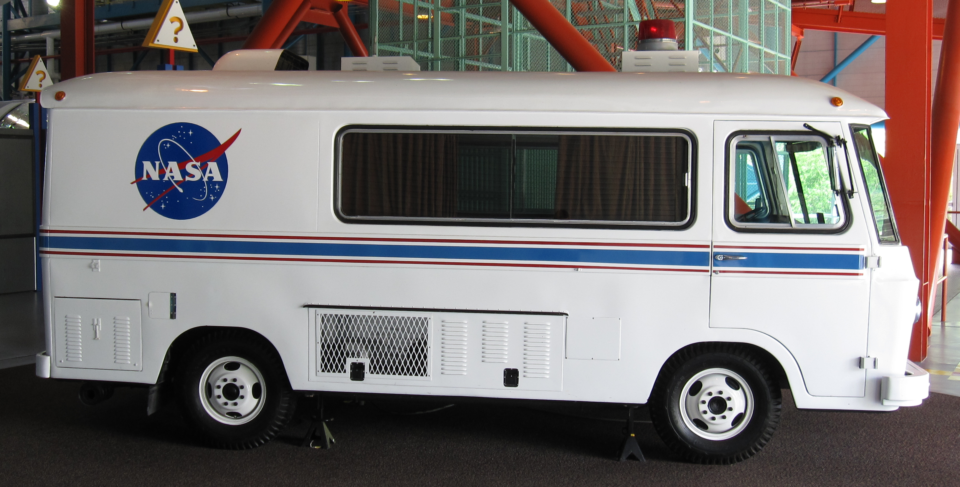 The Astronaut Van @ the Apollo-Saturn V Museum at the Kennedy Space Center in Florida. This specially outfitted van was used to transport fully suited Apollo crews to the launch pad. The astronauts carried small ventilators that controlled the temperatures of their suits until they connected to the command module's life support system.